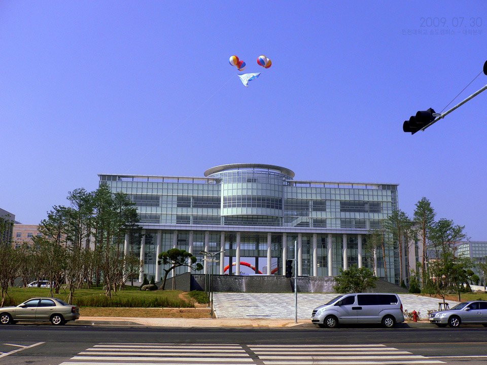 The main building of University of Incheon, Korea